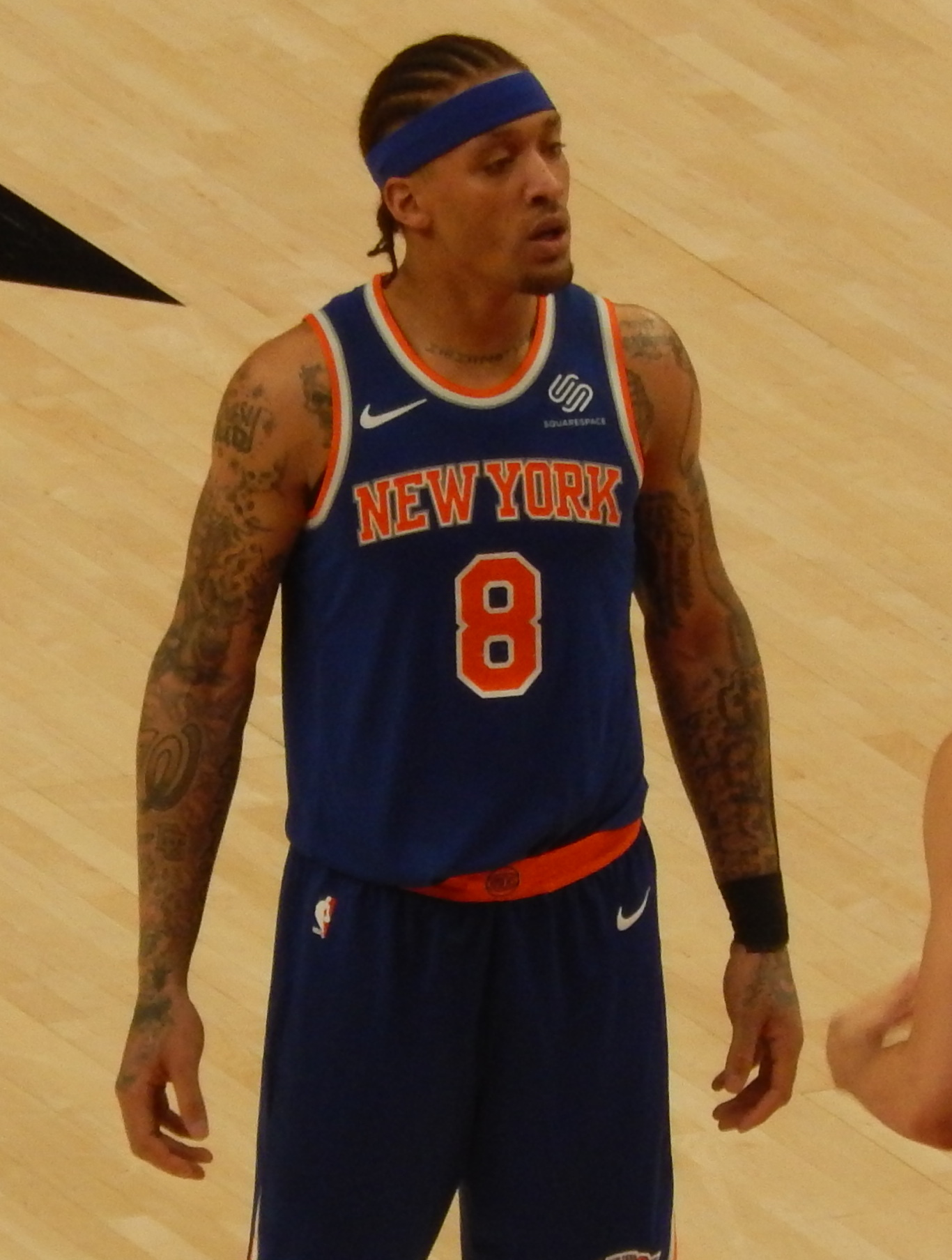 Michael Beasley #8 of the New York Knicks against the Portland Trail Blazers on March 6, 2018 at Moda Center in Portland, Oregon.